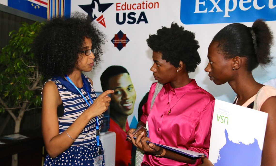 Education Advisor, Suely Neves at FIC 2016